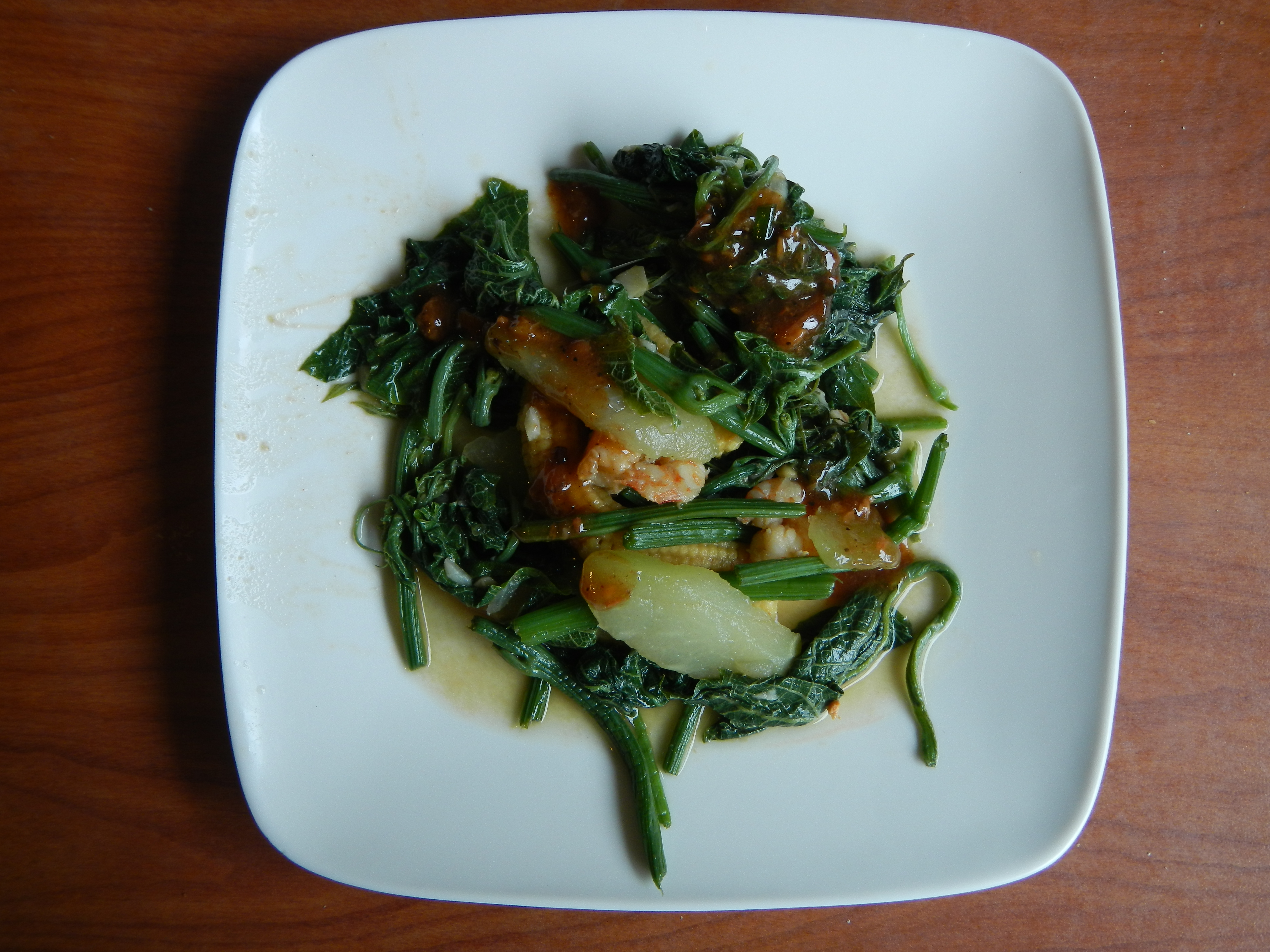 [1]Chayote Sechium edule